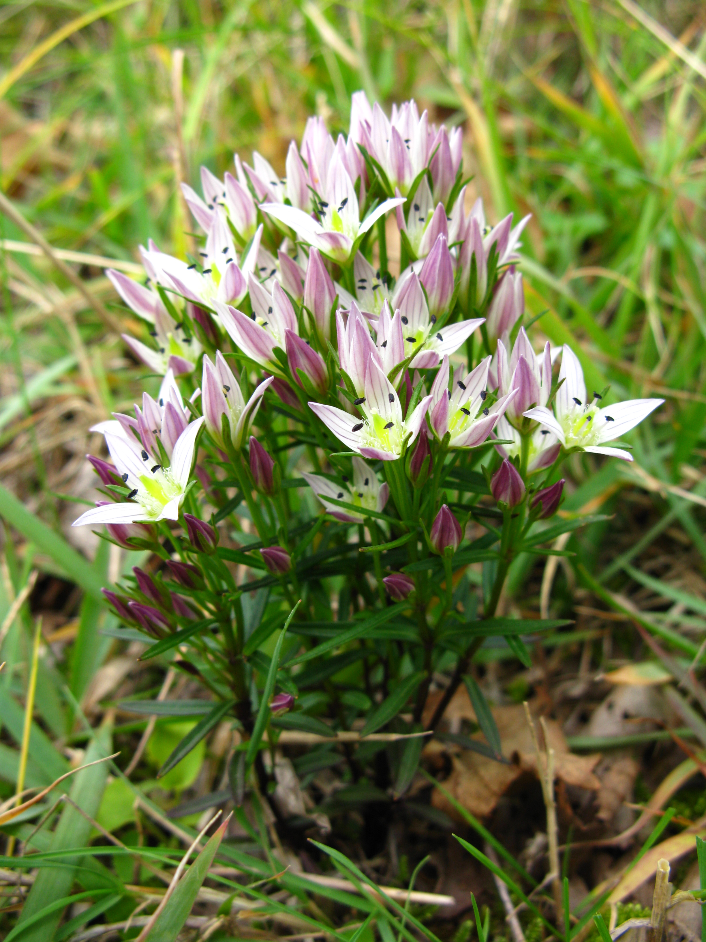 Swertia japonica, Aizu area, Fukushima pref., Japan